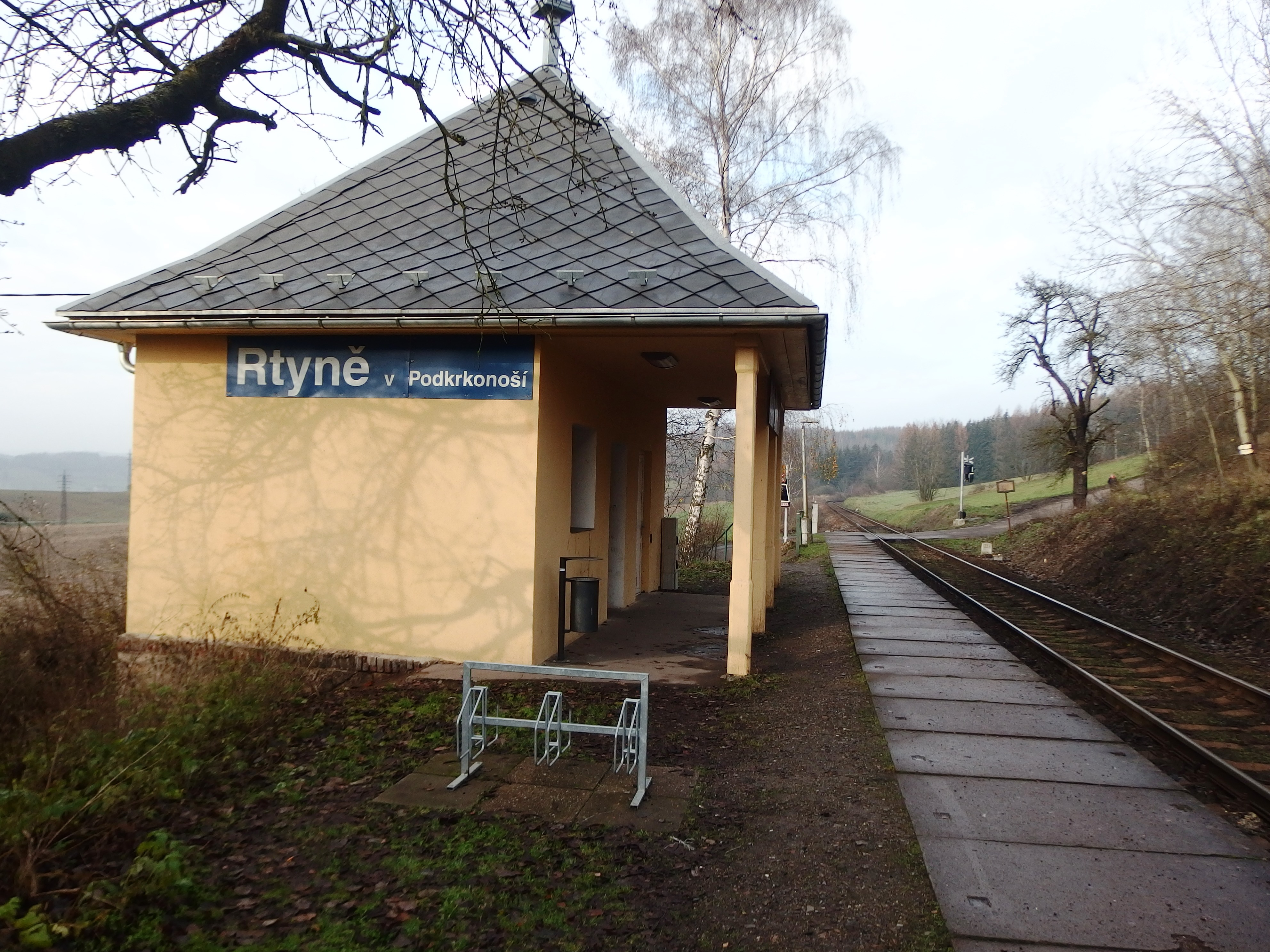 Rtyně v Podkrkonoší, Trutnov District, Czech Republic. Train station.